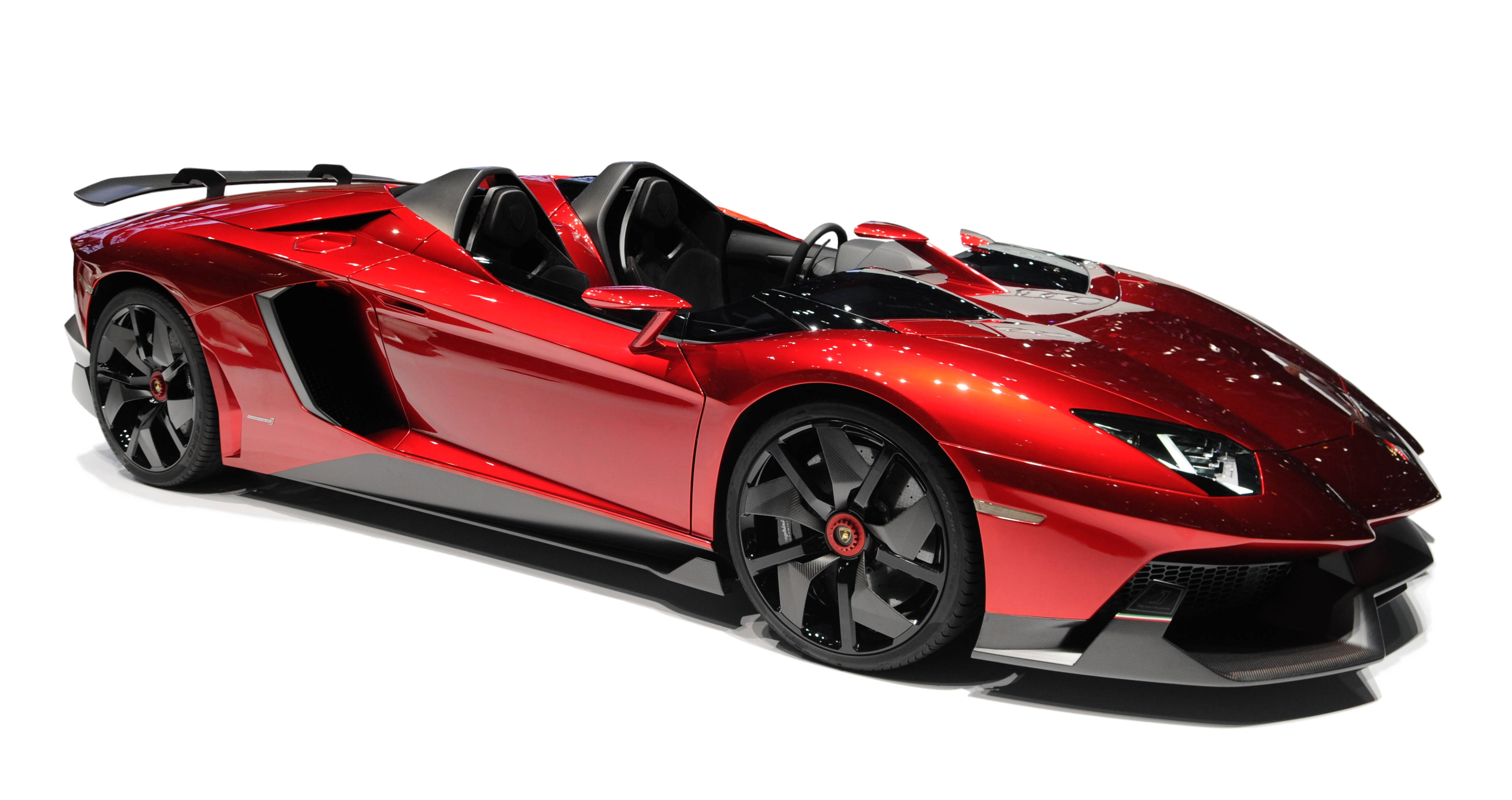 Lamborghini Aventador J at Geneva Motor Show 2012 (photos taken on the second press day)